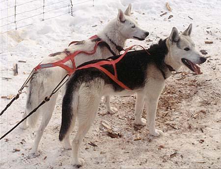 Two Seppala Siberian Sleddog leaders Photo shows two Seppala Siberian Sleddogs, Sepallop and Sepalluna, in lead position after a training run at Seppala Kennels circa 1995 in the Yukon Territory. Photo by J. Jeffrey Bragg. This file is a resource of the Seppala Siberian Sleddog Project, which hereby grants license to Wikipedia to use and distribute this file subject to Wikipedia's usual terms. File created 19 July 2003 by J. J. Bragg.